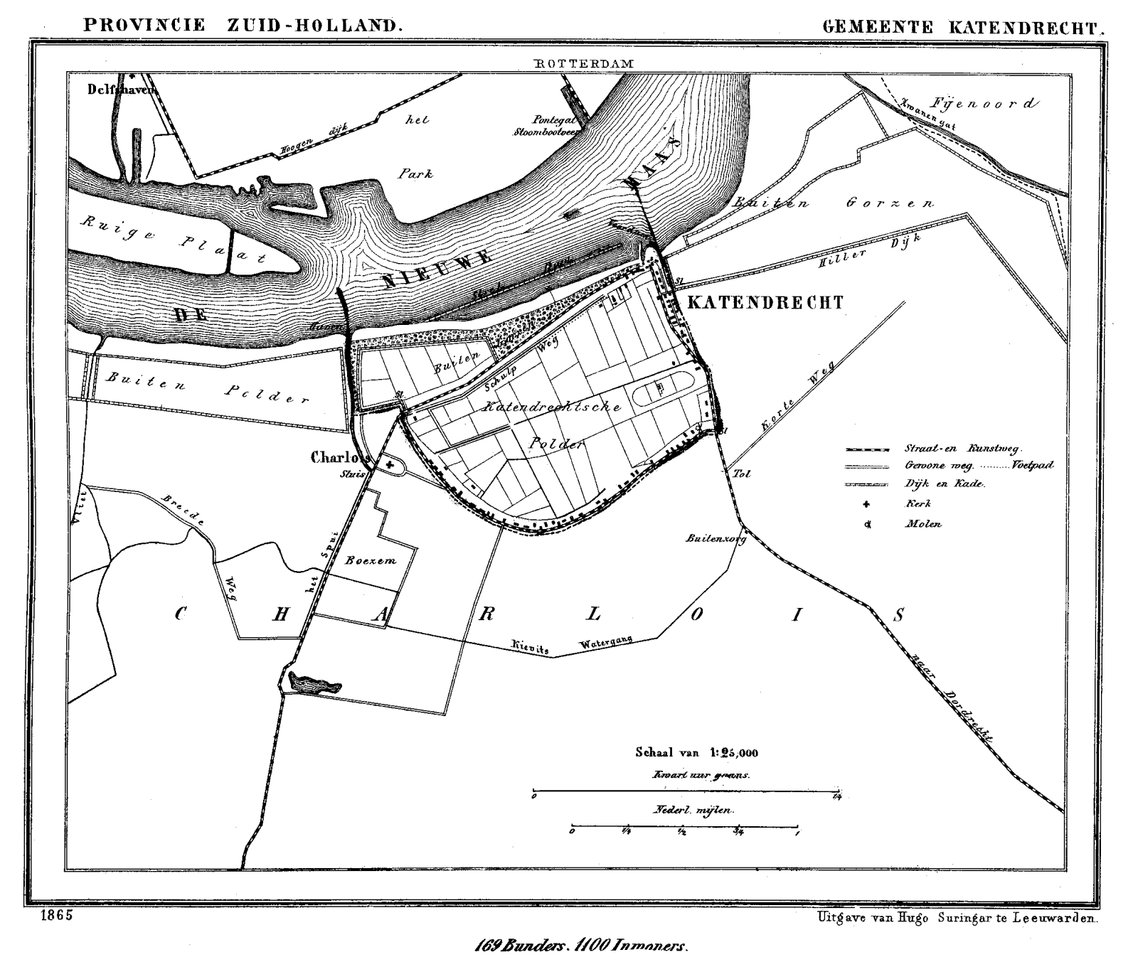 Historic map of Katendrecht (now part of municipality Rotterdam), South Holland, the Netherlands